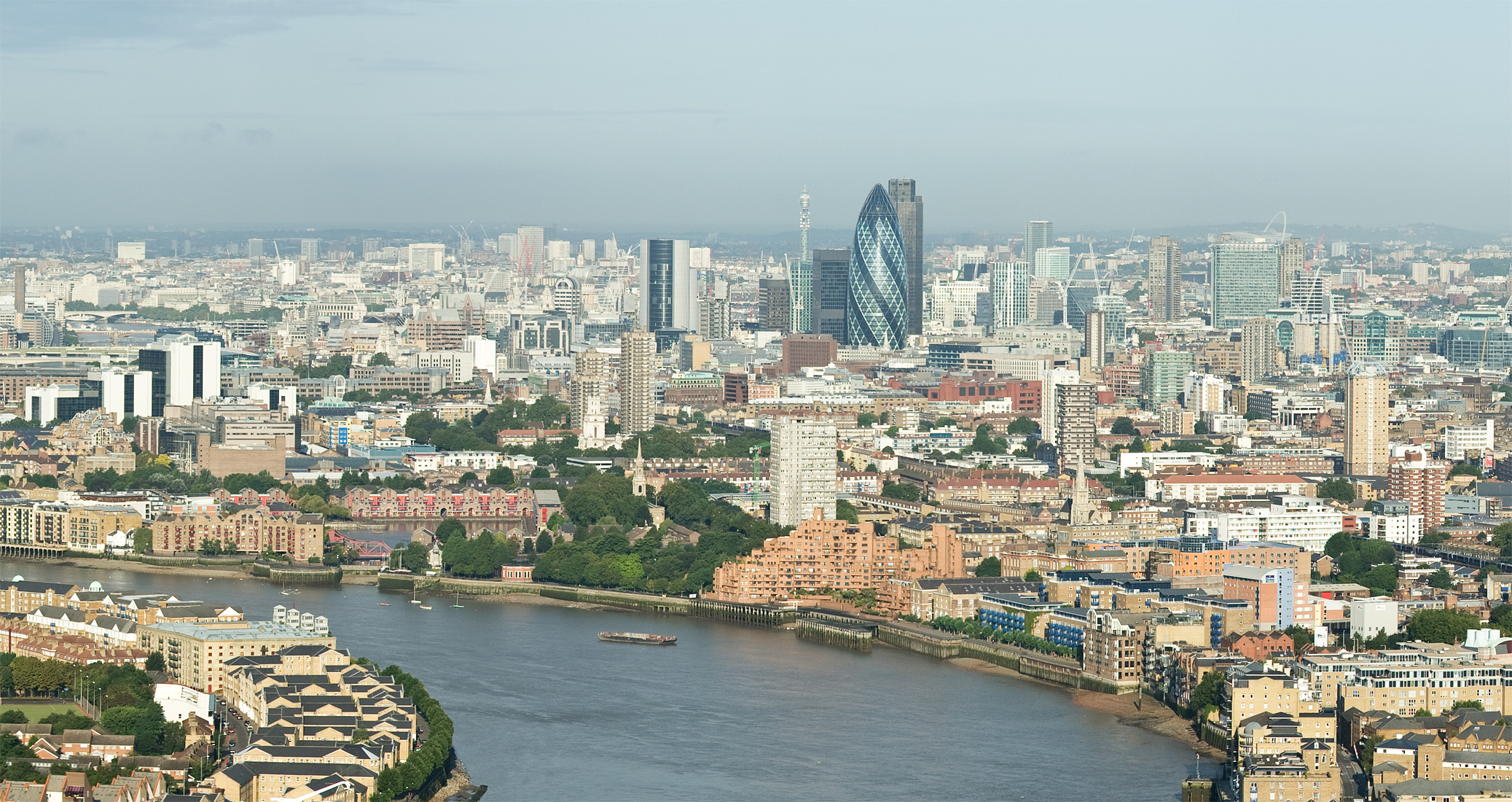 A view of the City of London Skyline from the 37th floor of a Canary Wharf skyscraper. Taken by myself with a Canon 5D and 24-105mm f/4L IS lens.